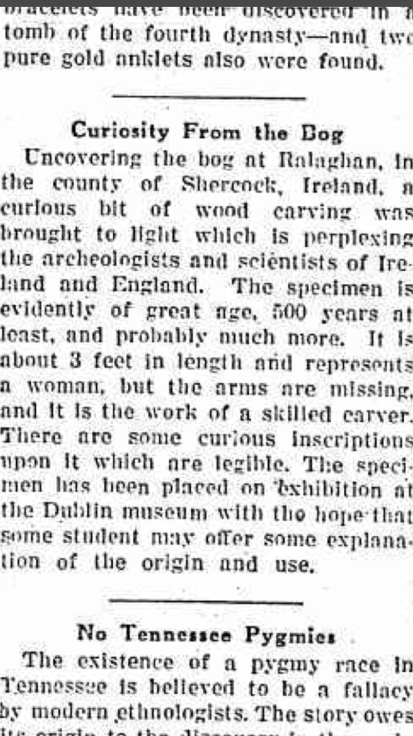 Curiosity from the bog. A newspaper article from the Chatham New York Courier, 1931.